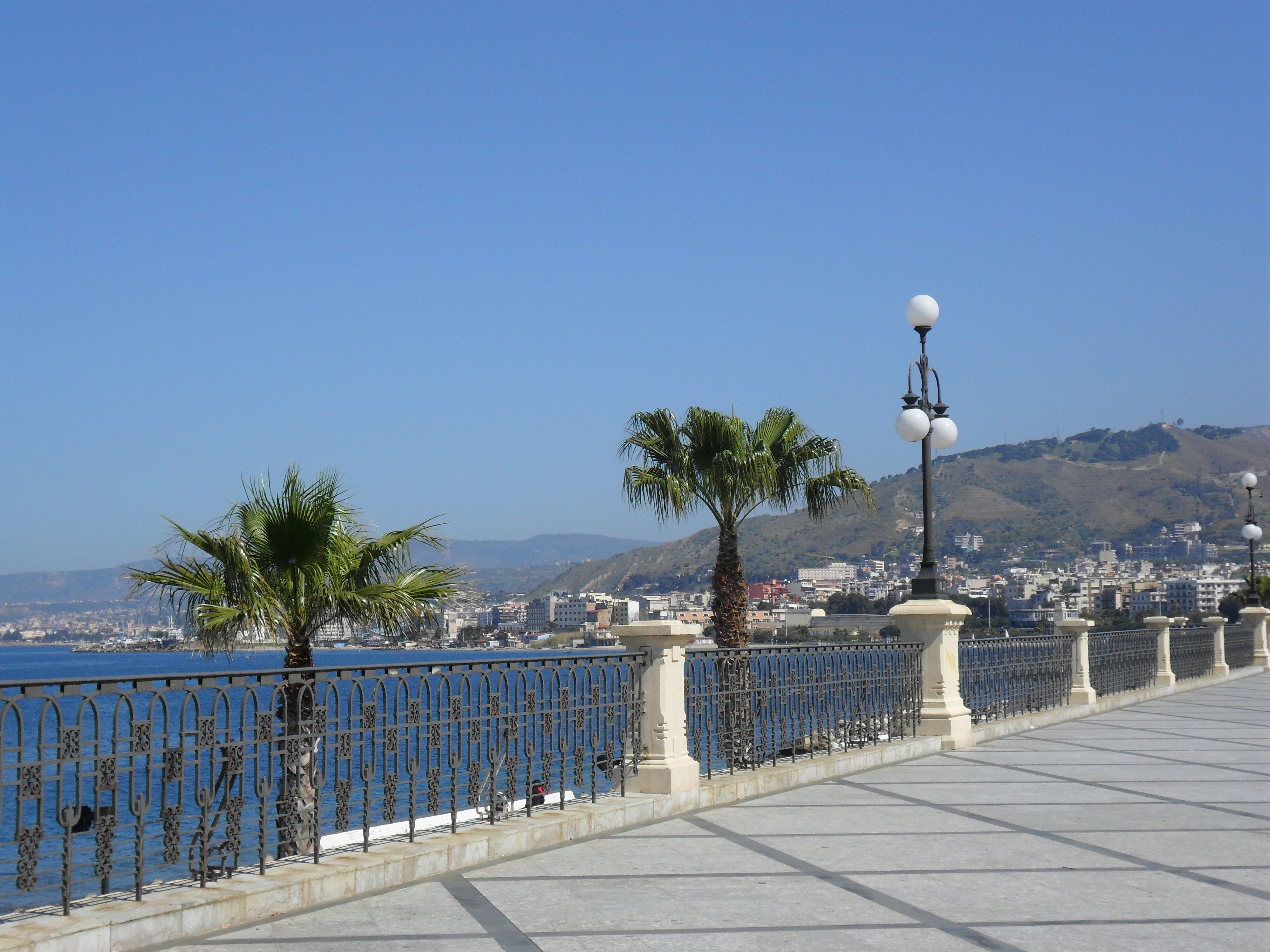 the waterfront